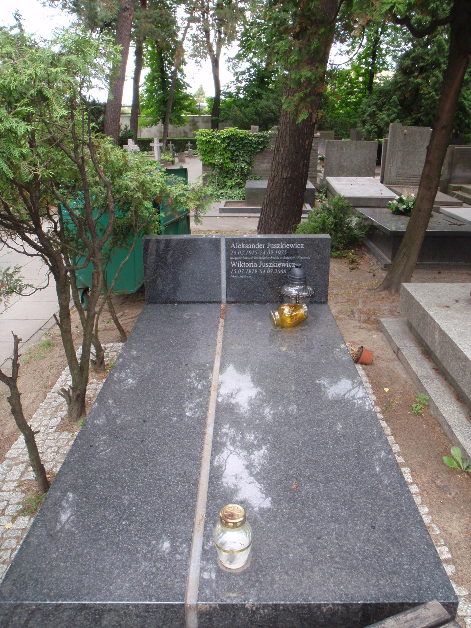 Grave of Aleksander Juszkiewicz